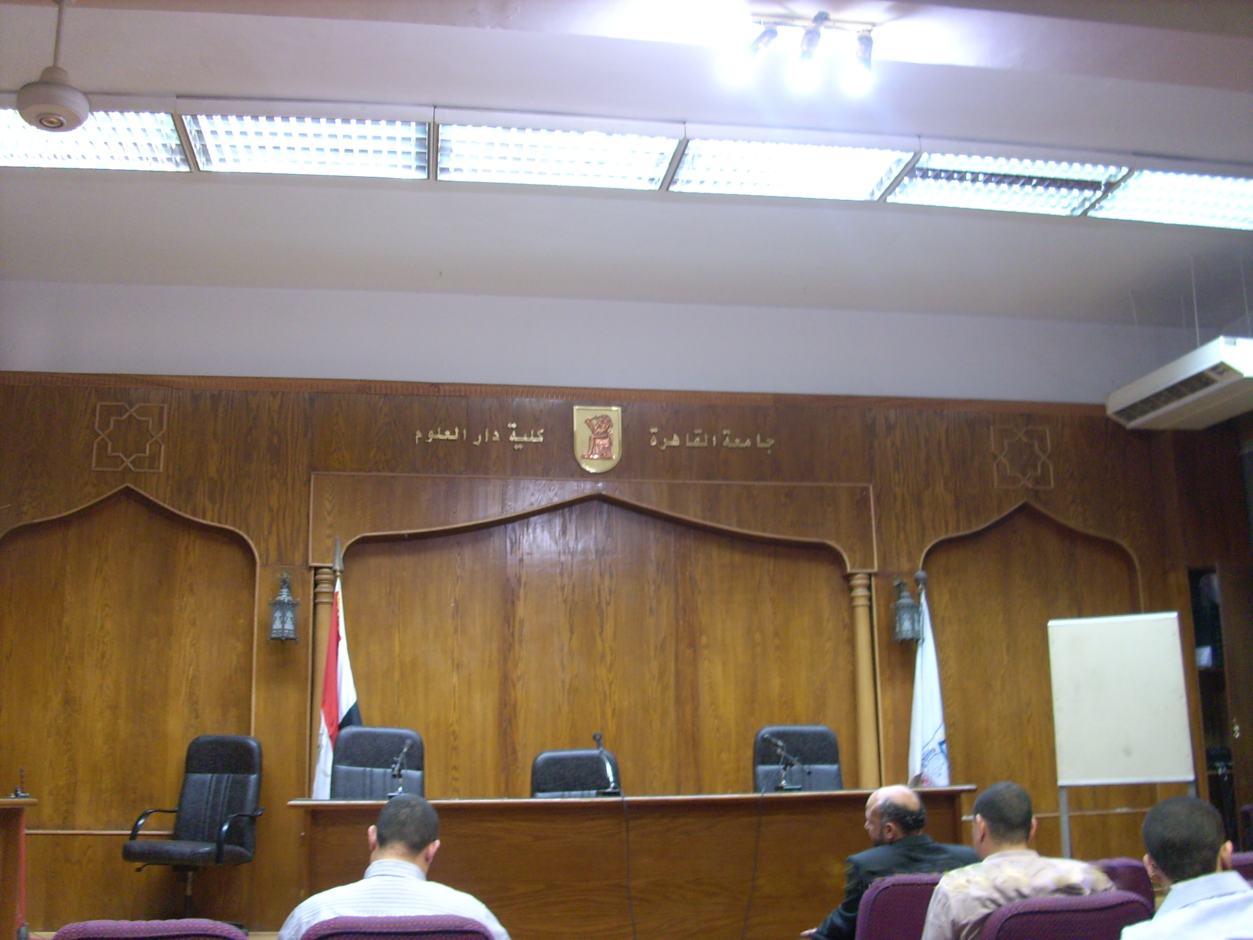 Cairo Univ, Dar Al-Oluom